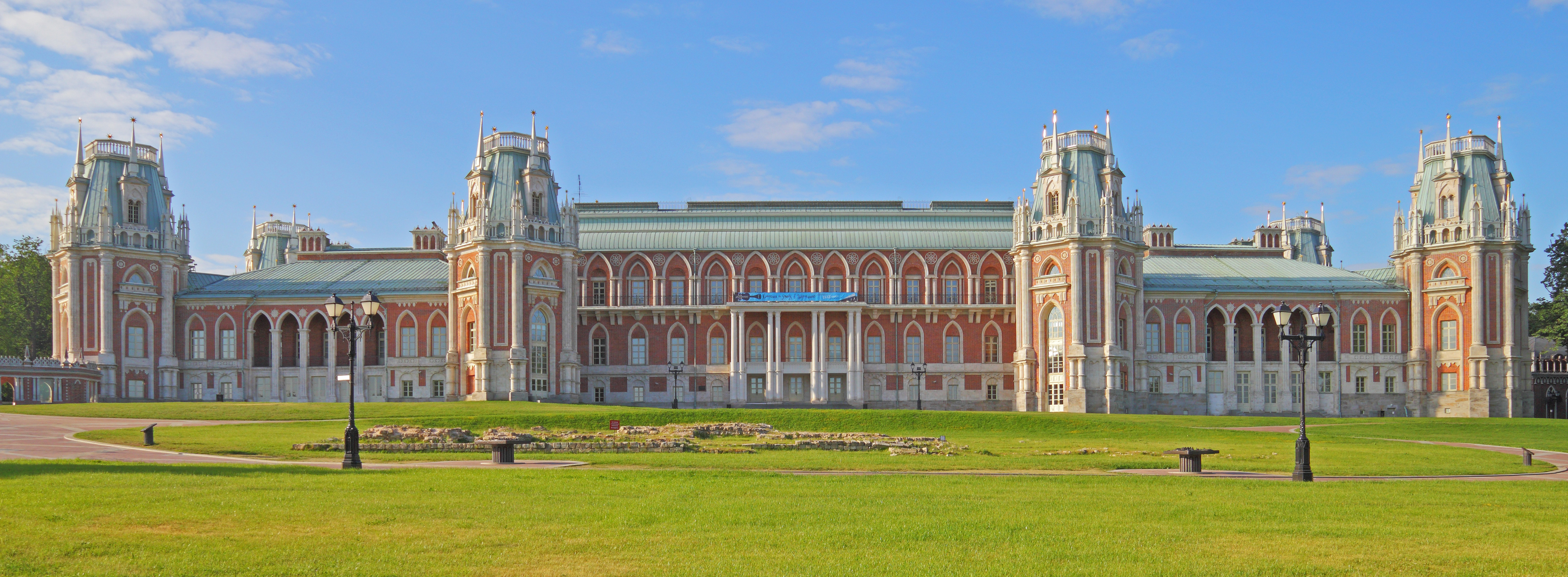 Moscow, Russia. Tsaritsyno Museum Reserve. Grand Palace.